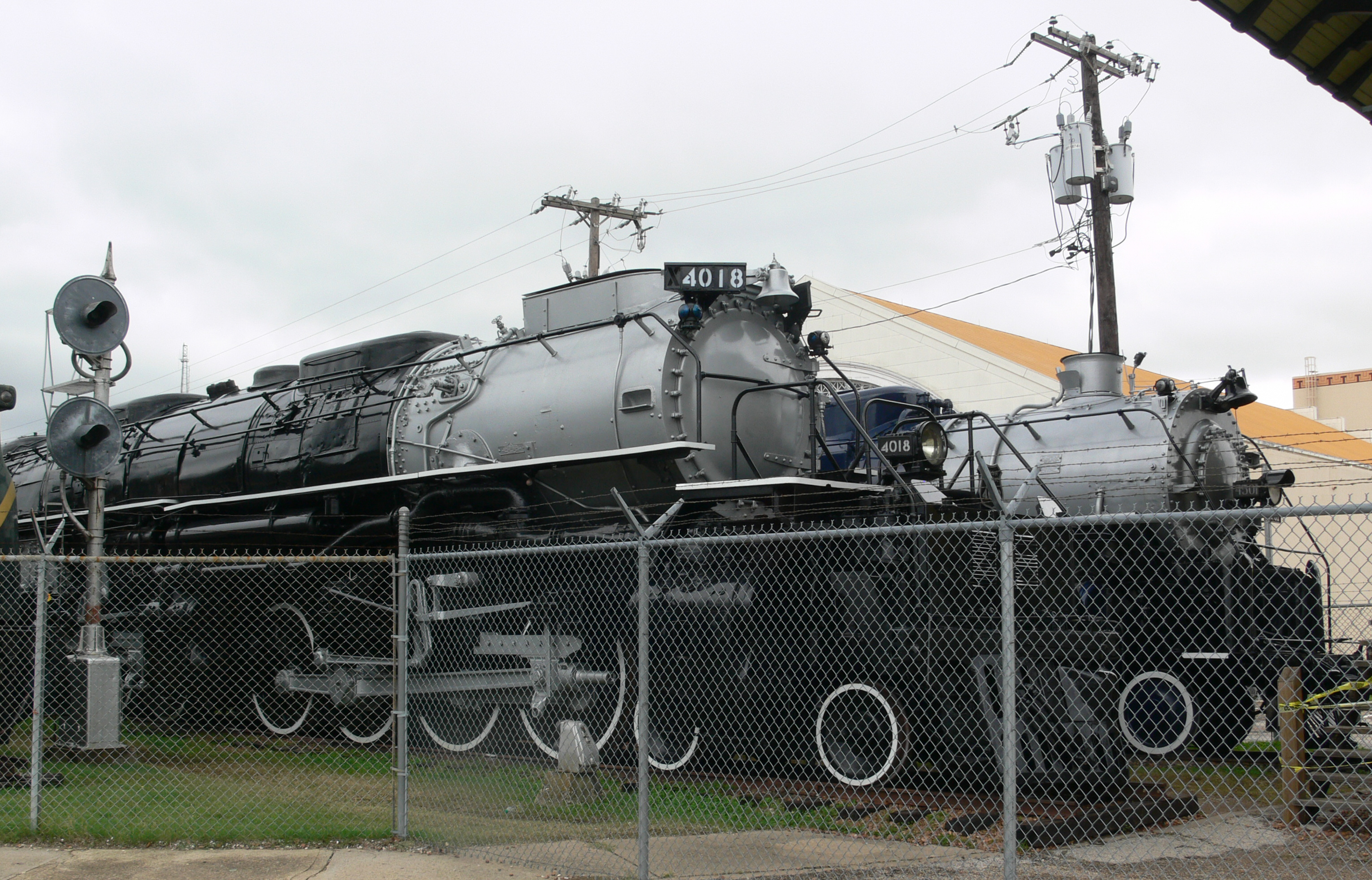 Museum of the American Railroad, Fair Park, Dallas